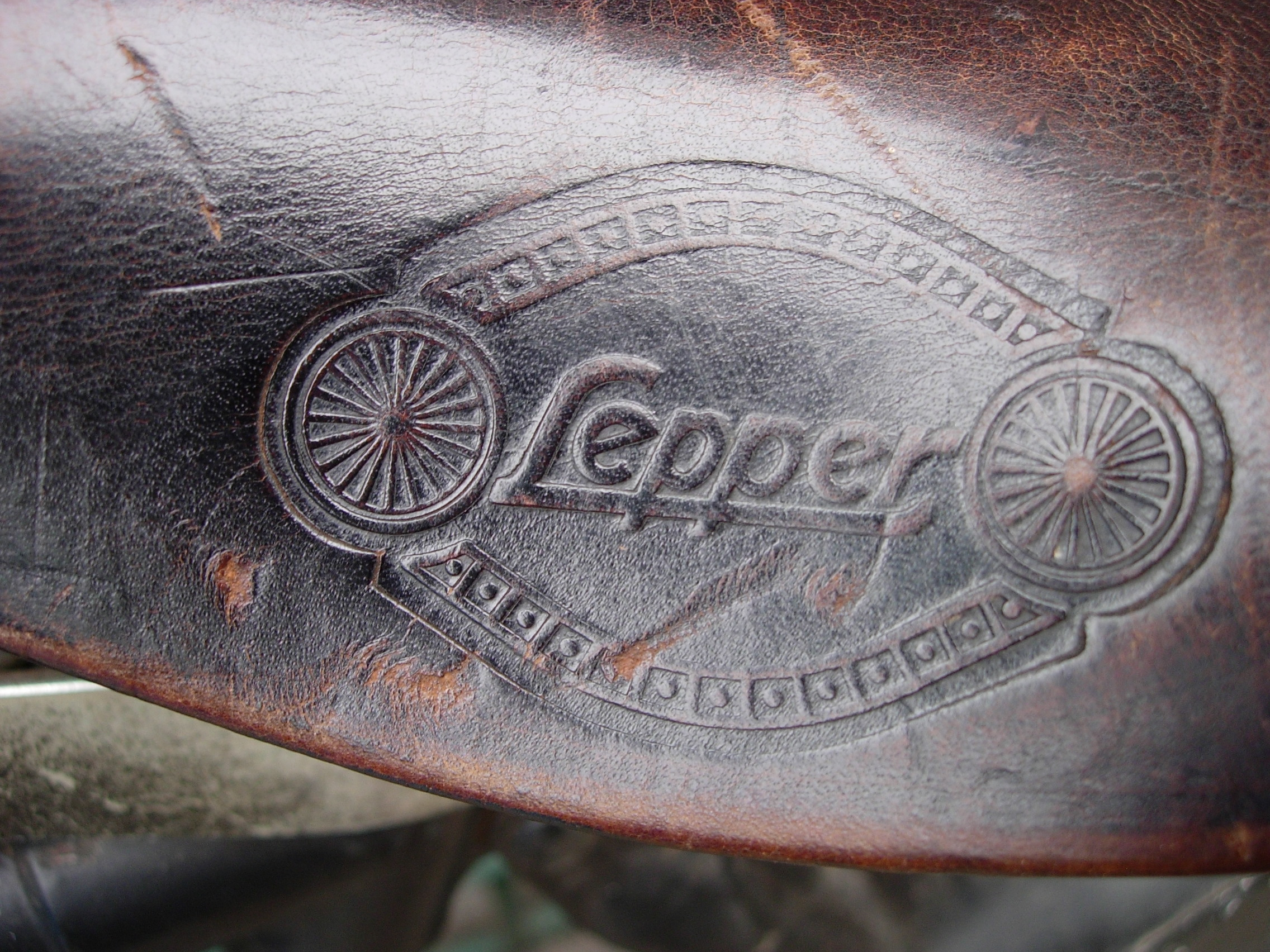 jaw-dropping transportfiets!? (Lepper saddle)